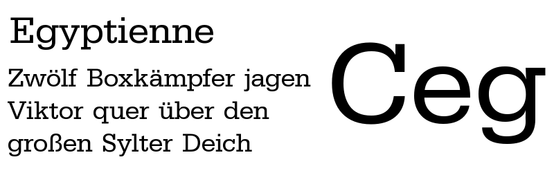 german pangram in typeface Egyptienne